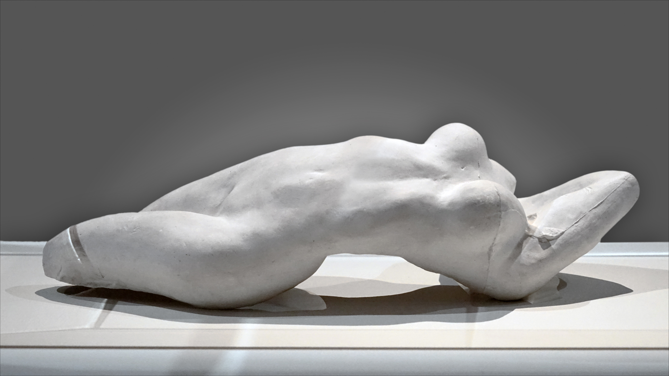 Auguste Rodin. Torso of Adèle. 1878-1884. Plaster. Musée Rodin, Paris. Photo was taken at the exhibition "Ciao Italia!" at the Musée National de l'histoire de l'immigration, Paris.